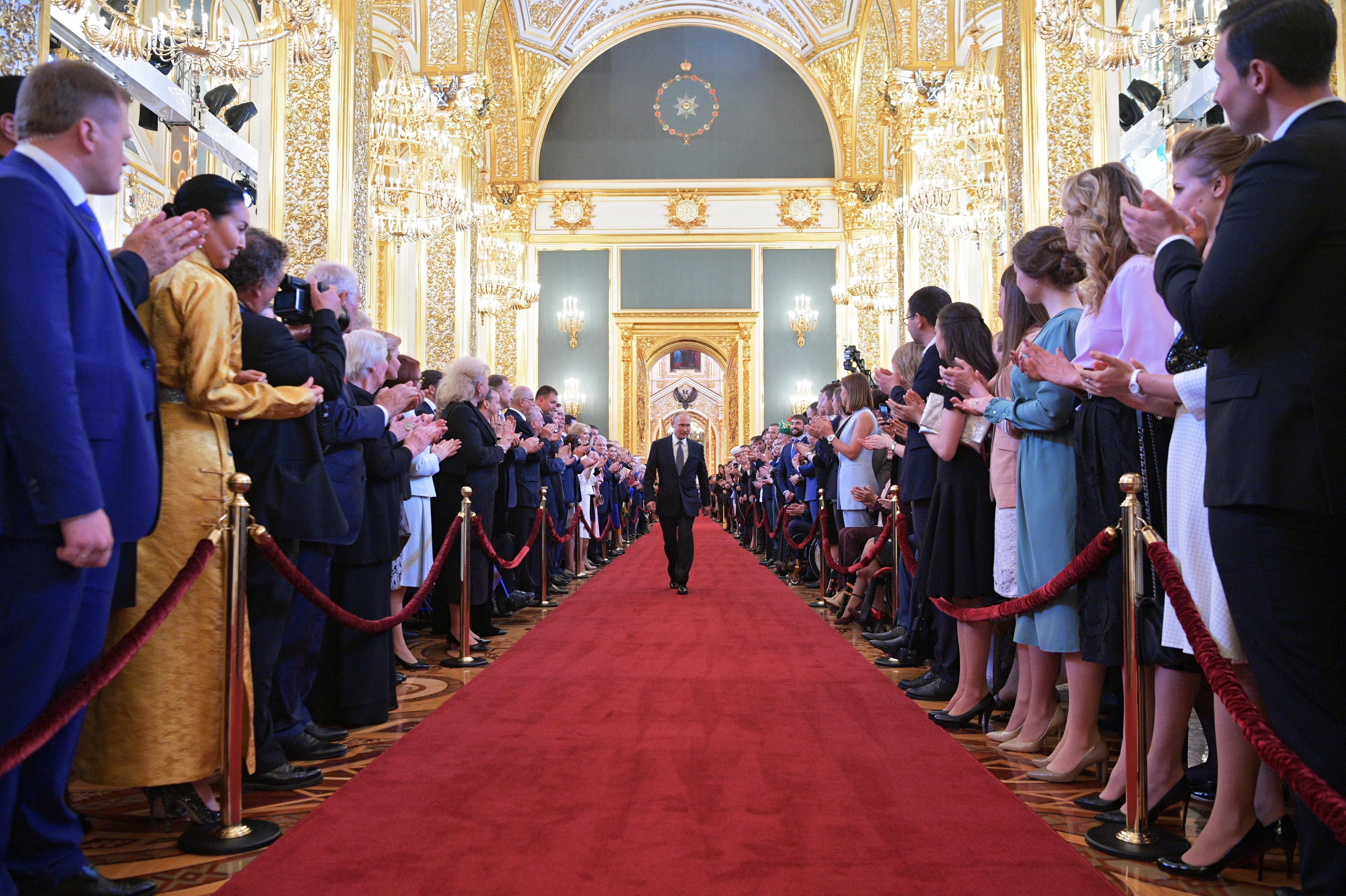 Vladimir Putin has been sworn in as President of Russia (2018-05-07)